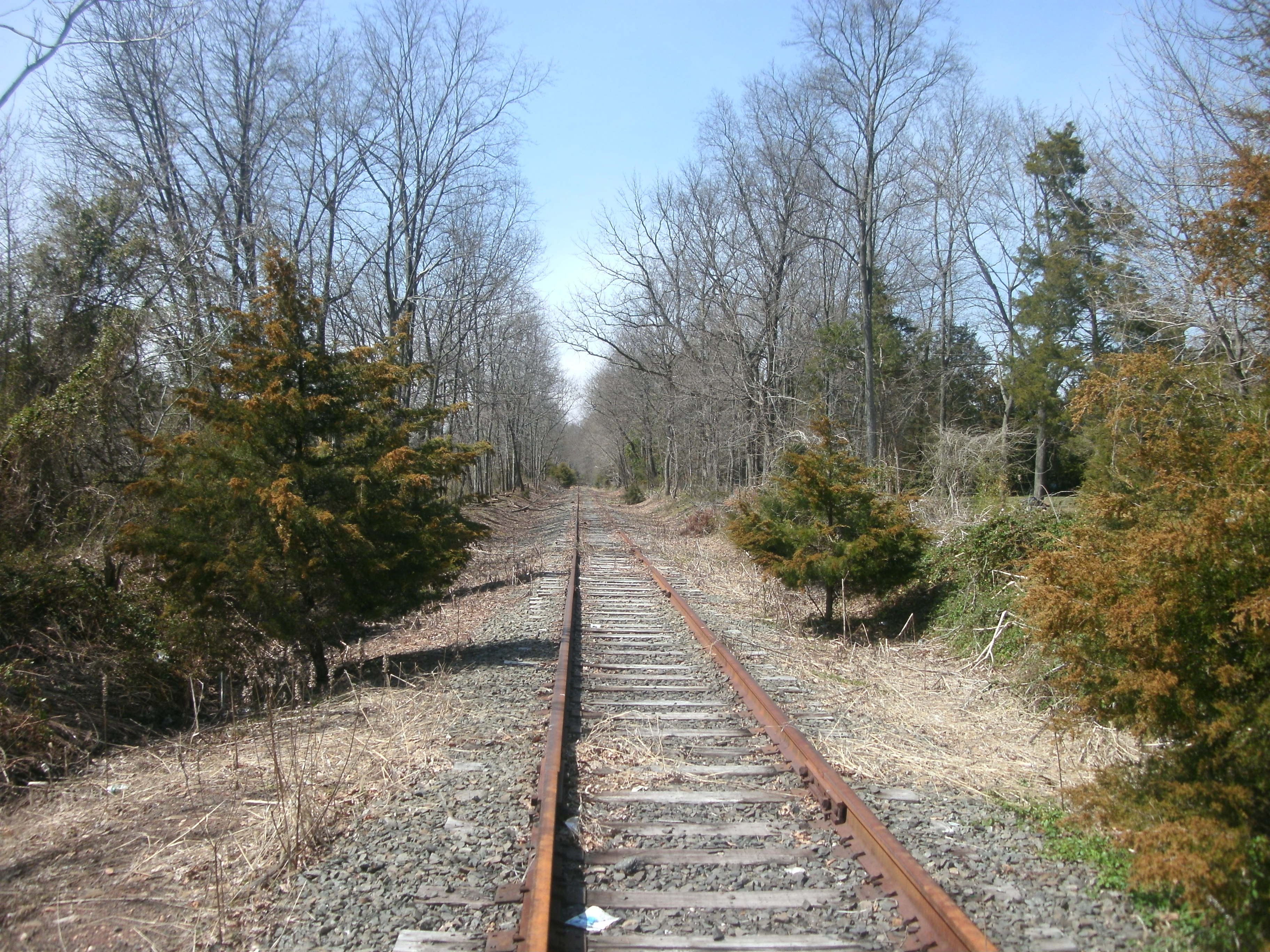 The former Pennsylvania Railroad Millstone Branch heading westbound towards Millstone as viewed at the Clyde Road crossing in Franklin Township, Somerset County, New Jersey.